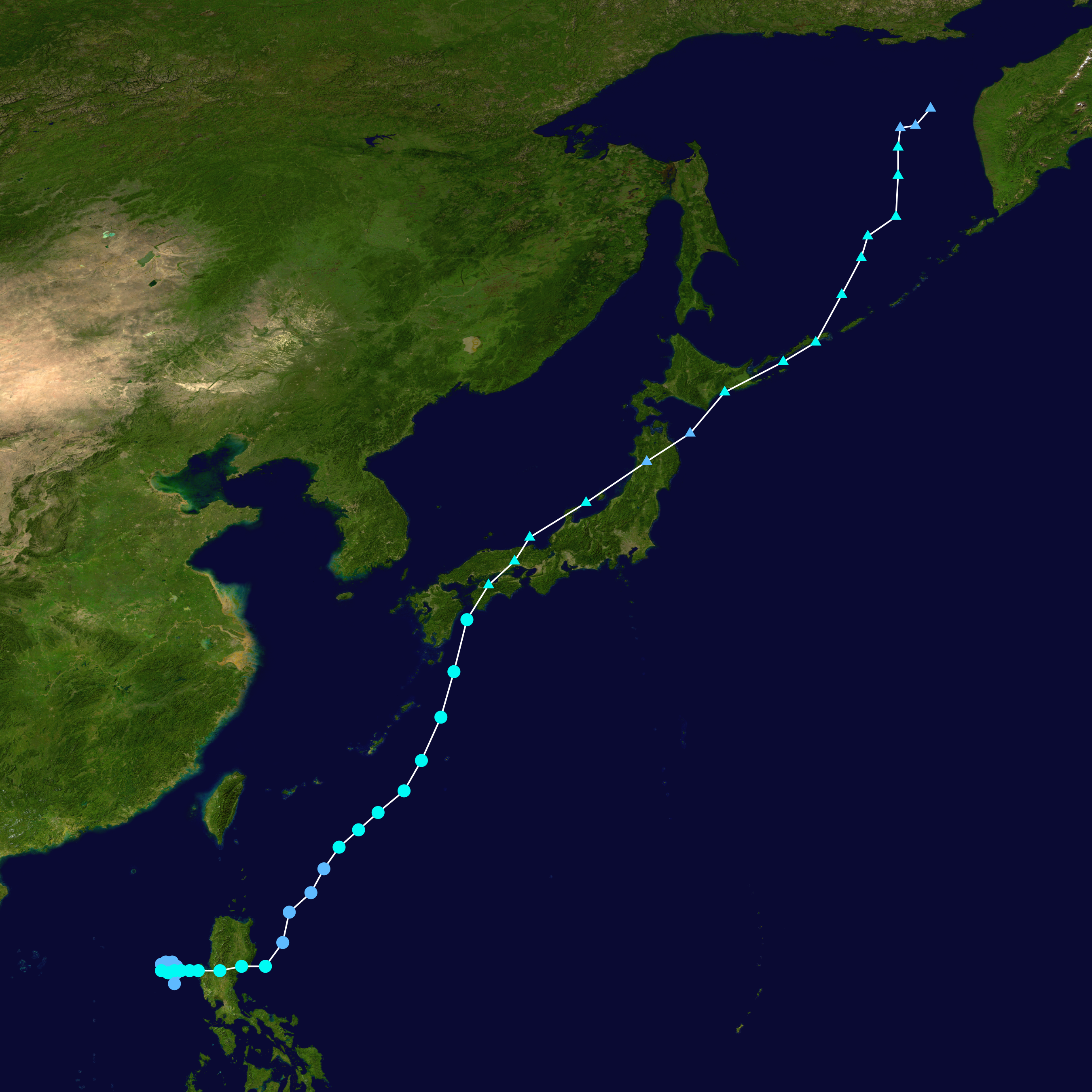 Tropical Storm Linfa 2003 track. Uses the color scheme from the Saffir-Simpson Hurricane Scale.